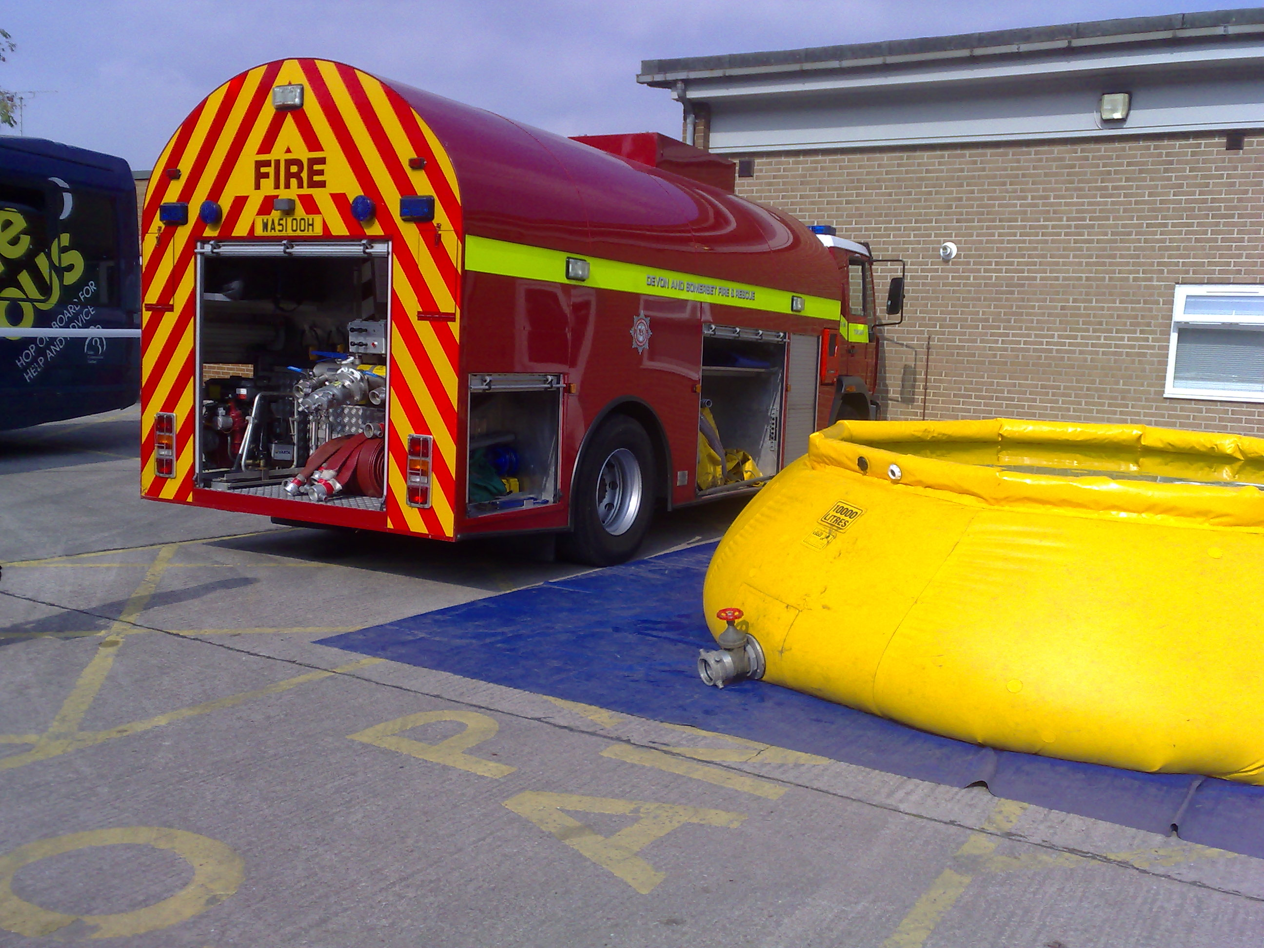 Water Foam Carrier. - DSFRS